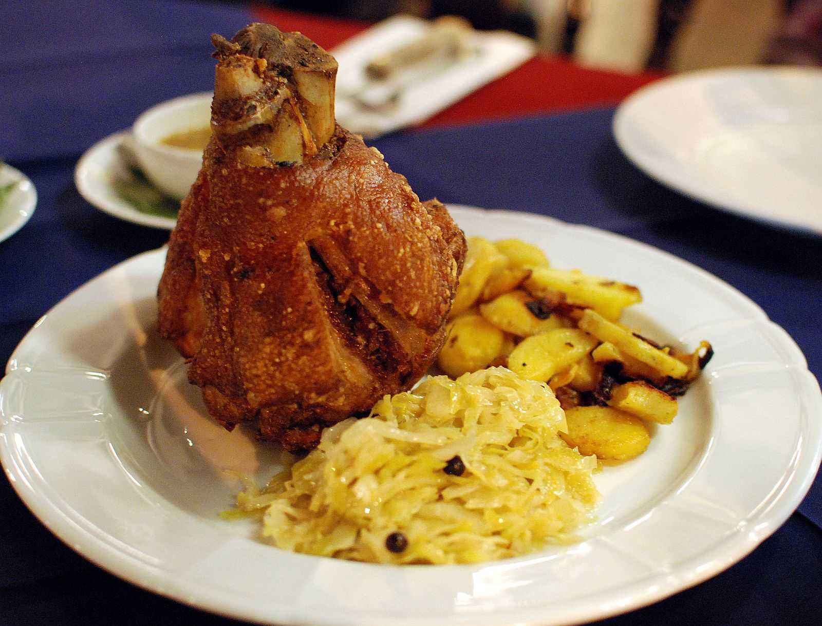 Perfect Schweinshaxe (Bavarian grilled pork knuckle) at the "Hofbräuhaus" restaurant in Chiang Mai, Thailand; served together with Bratkartoffeln (potatoes fried with onions) and Sauerkraut. It is also quite well-known in Thailand nowadays where the dish is called "Kha mu Yerman" (German style pork leg) or "Kha mu Phuket" (Pork leg Phuket style). Sauerkraut would be "phak kad dong Yerman" (German style pickled cabbage) and the fried potatoes would be translated in to Thai as "phat man farang Yerman" (German style fried potatoes).